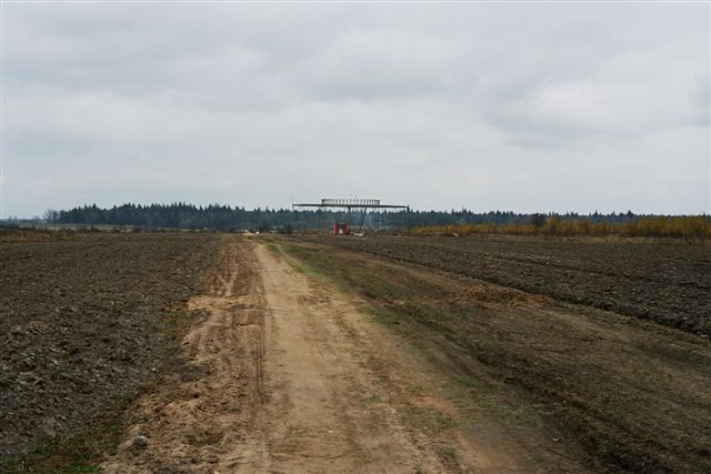 Electric beacon for aviation in village Skupowo, Narewka commune, Poland